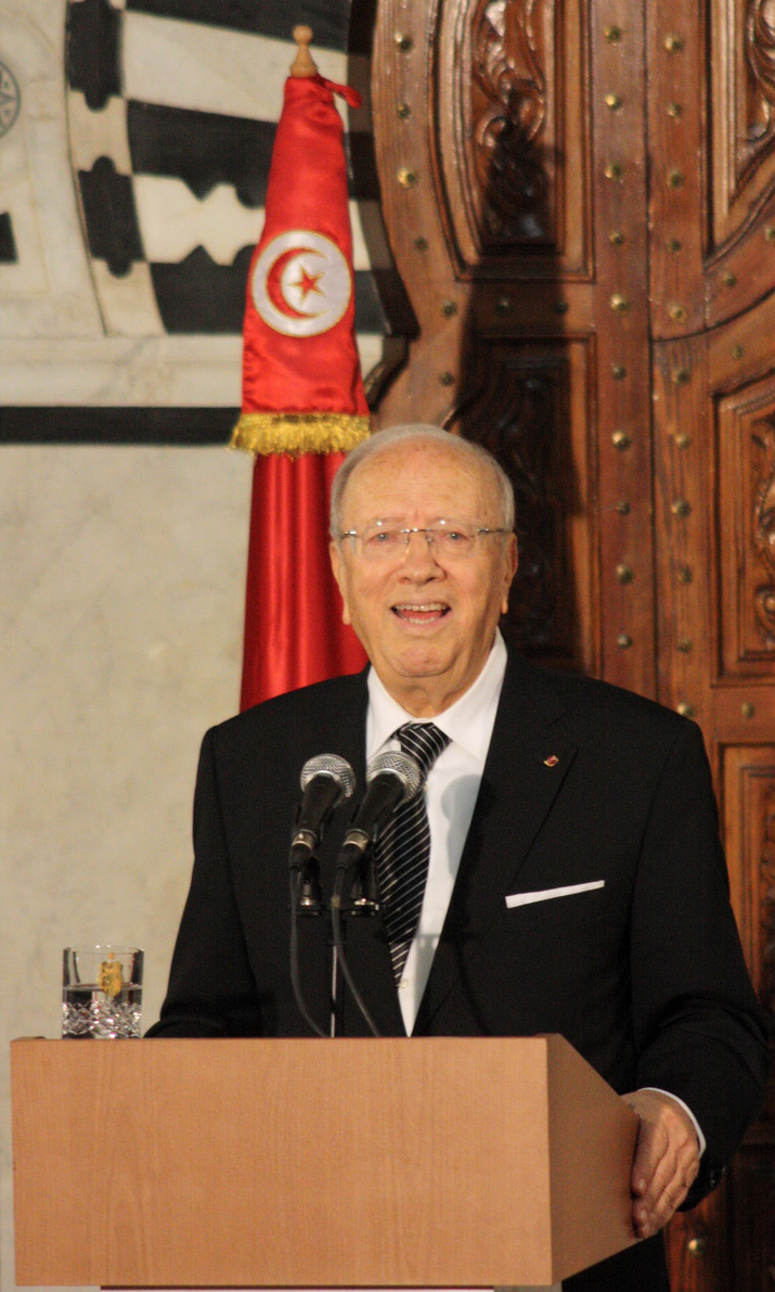 Beji Caid Es Sebsi, Interim Tunisian Prime Minister